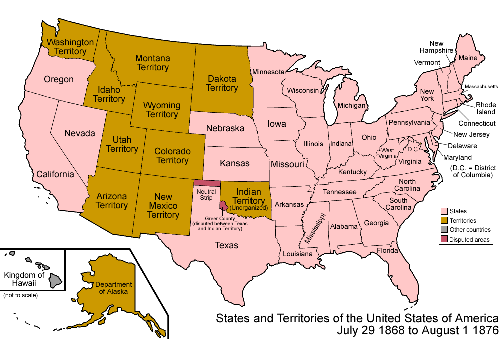 Map of the states and territories of the United States as it was from 1868 to 1876. On July 29 1868, Wyoming Territory was formed from portions of Dakota, Idaho, and Utah Territories. On August 1 1876, Colorado Territory was admitted as the state of Colorado.